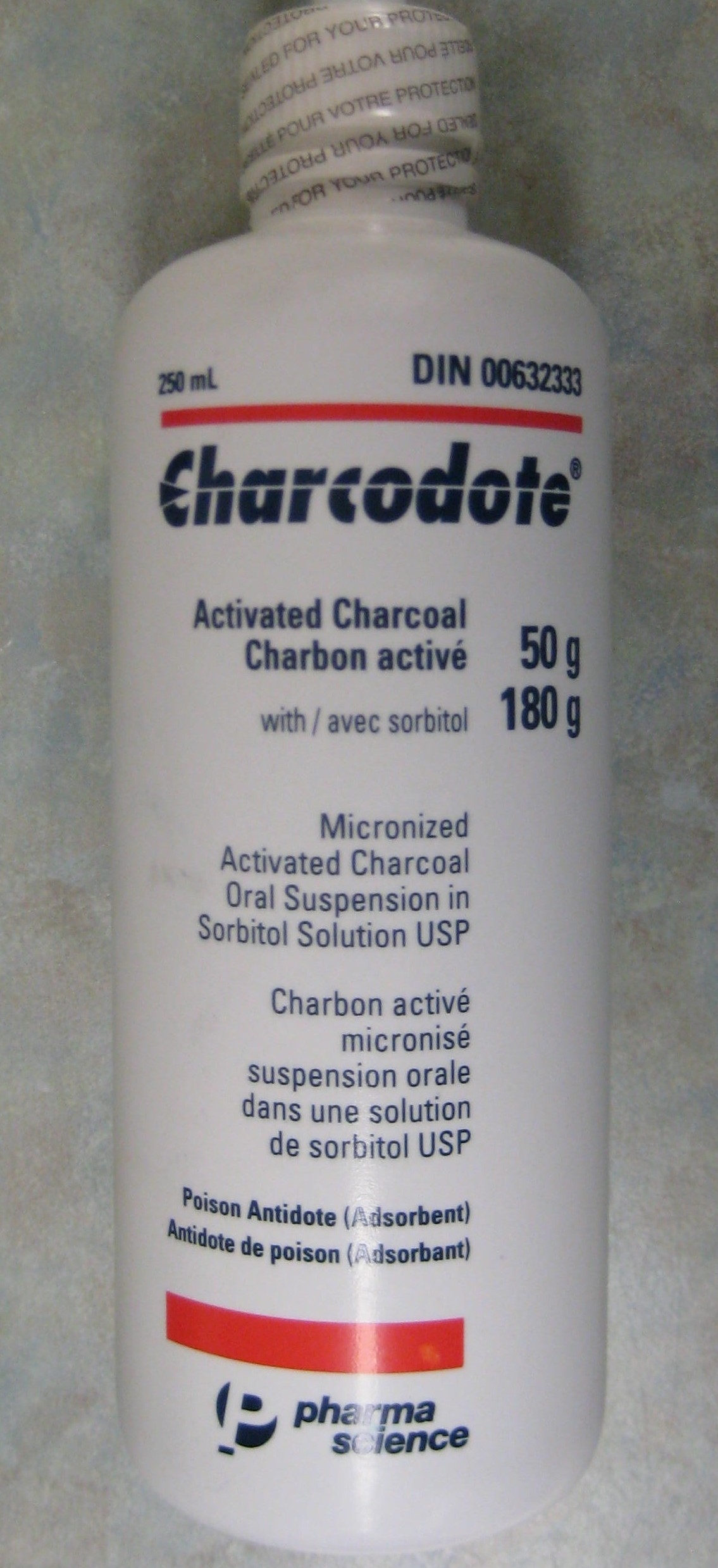 A bottle of 50gms activated charcoal with 180gm of sorbitol